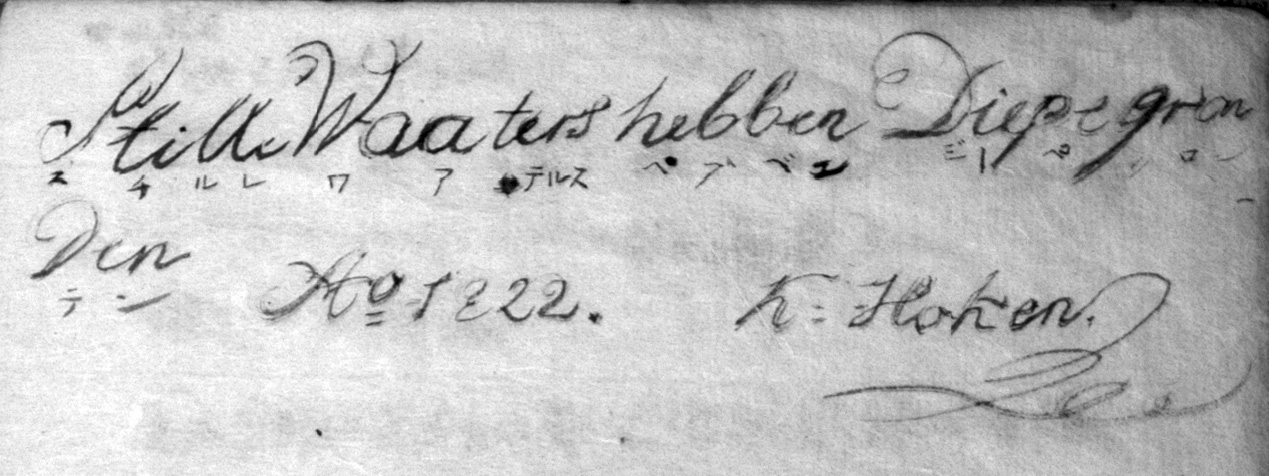 Copy of a Dutch proverb in a manuscript written by the Japanese physician and scholar Murakami Gensui (1781-1843).